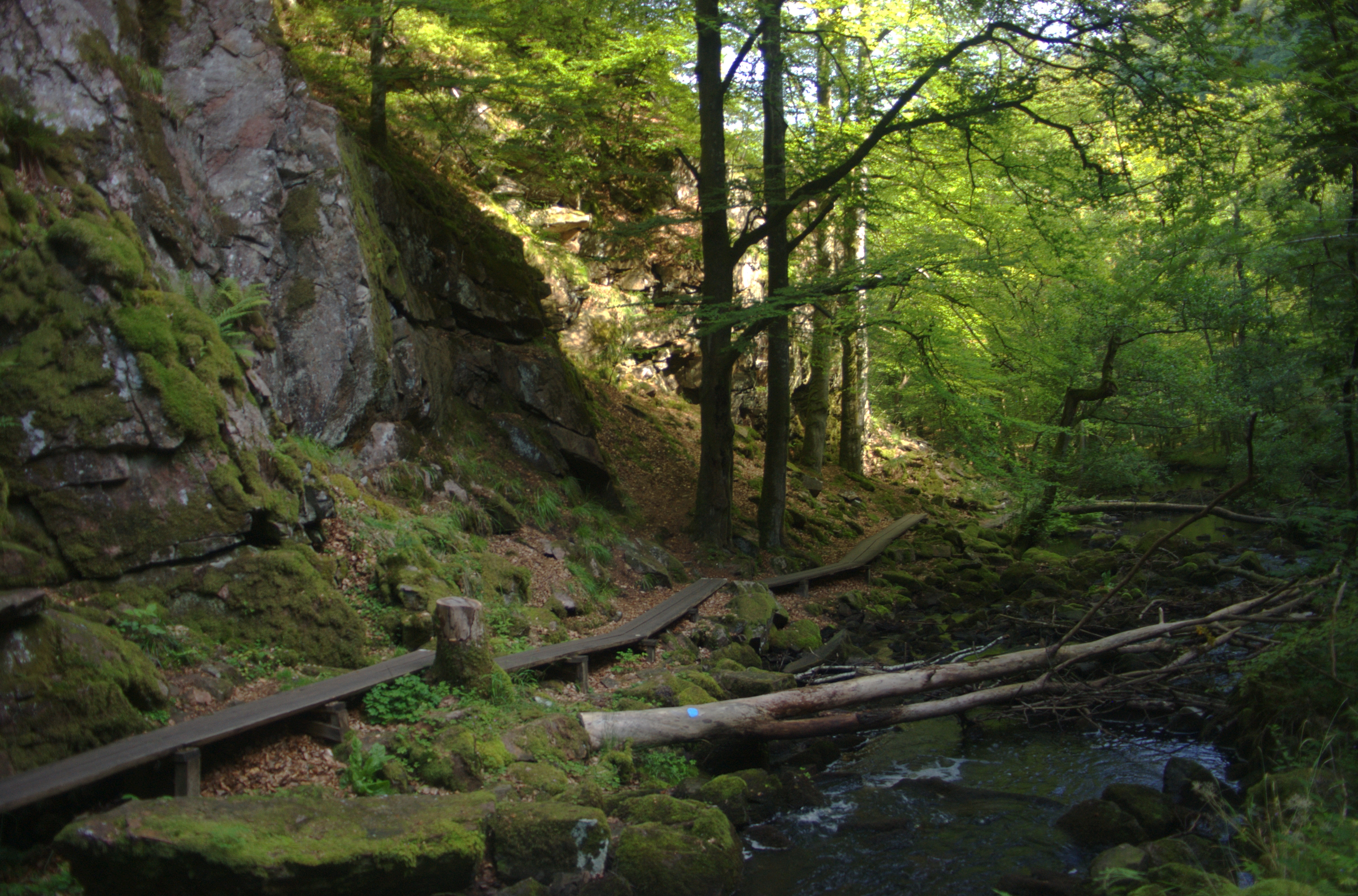 Deciduous forest in the canyons of Söderåsen Nationalpark in Sweden